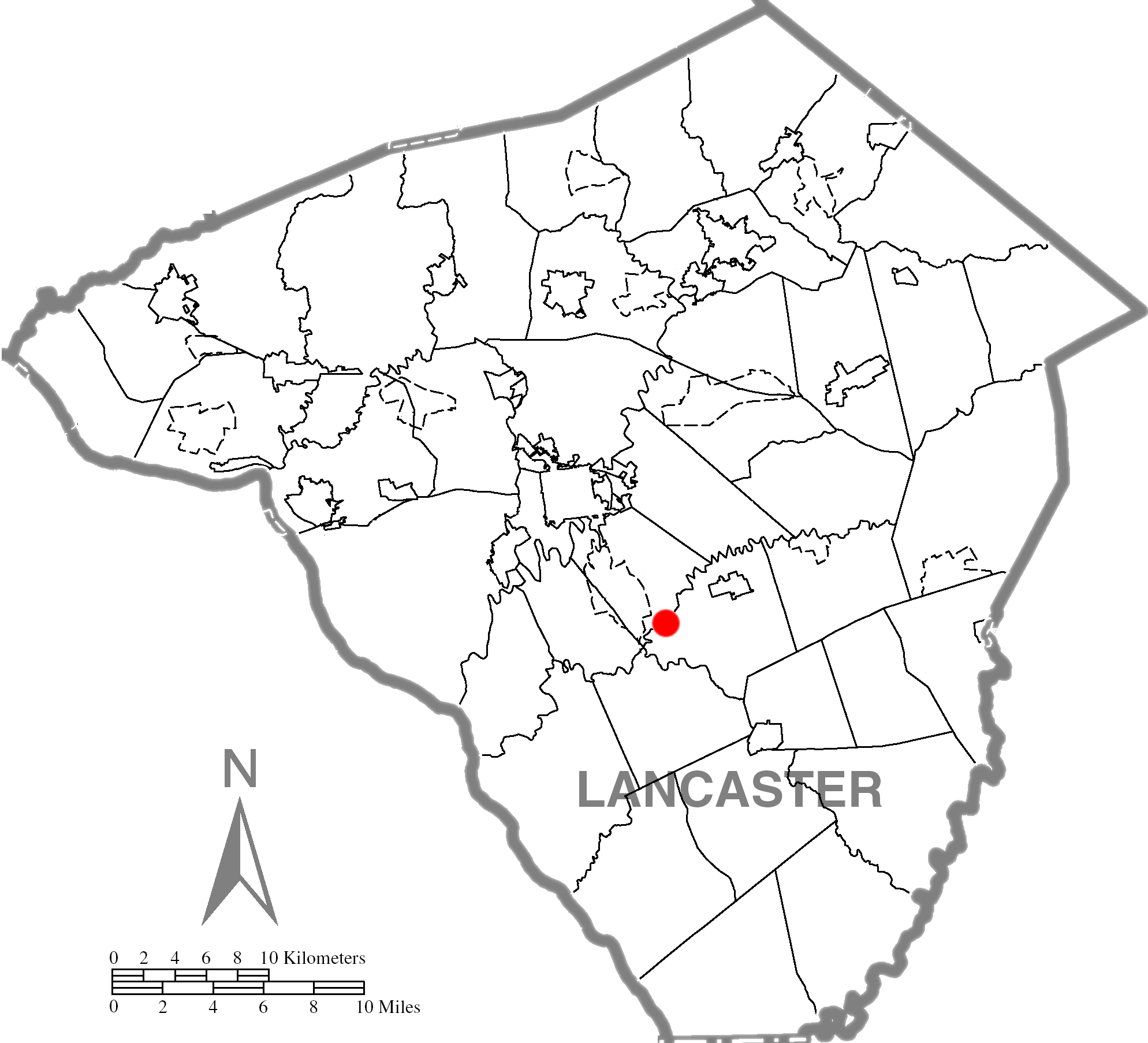 Lancaster County dot map of the Lime Valley Covered Bridge.